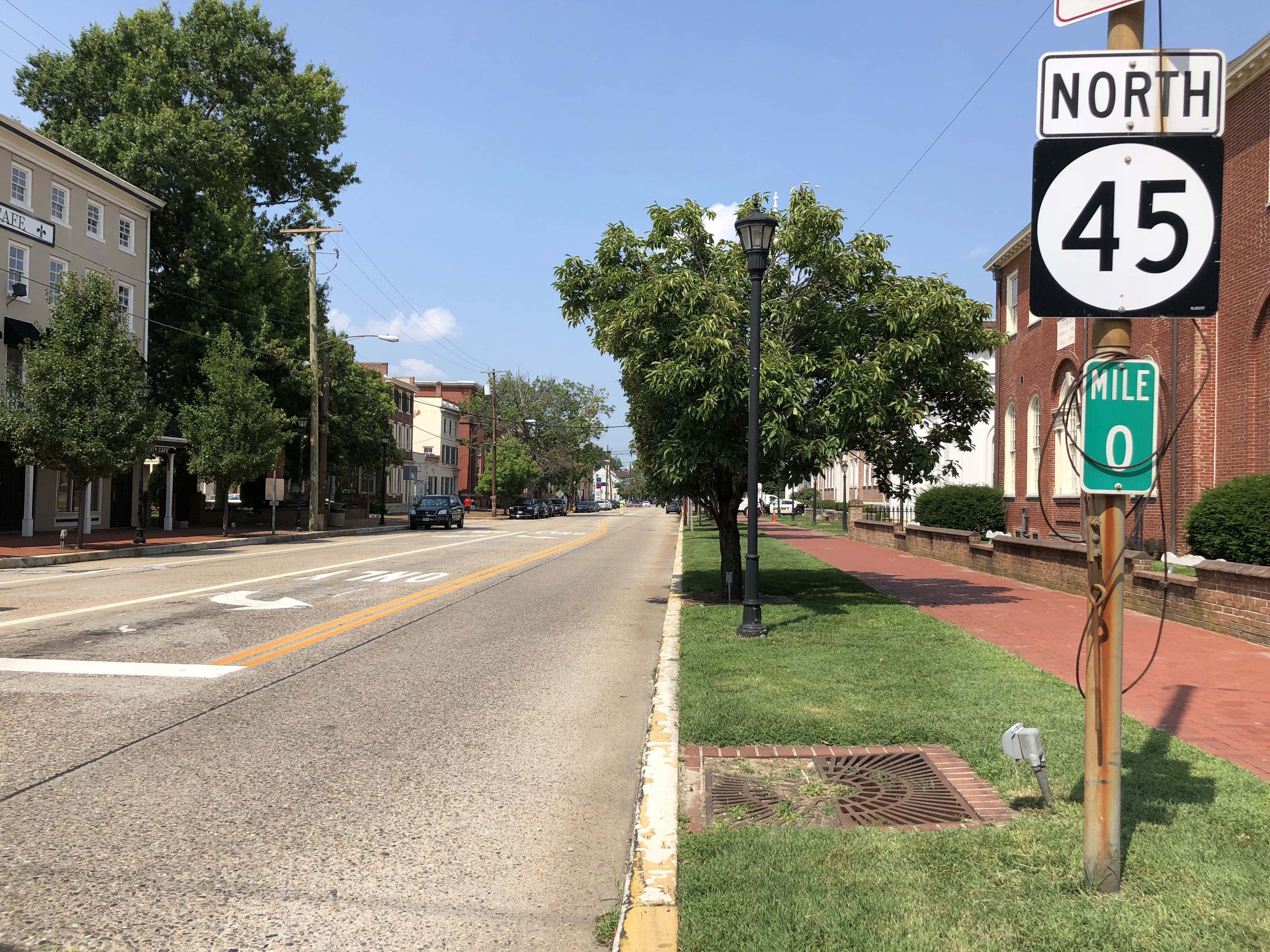 View north along New Jersey State Route 45 (Market Street) just north of New Jersey State Route 49 (Broadway) in Salem, Salem County, New Jersey